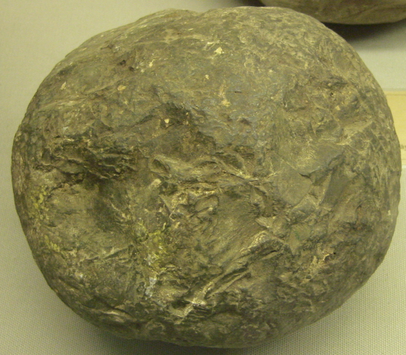 A 14th century stone cannon-ball found in Tây Đô castle, Thanh Hoa Province, Vietnam